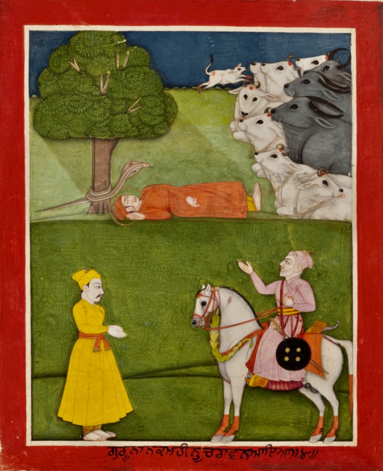 Asian Art Museum, San Francisco has a collection of manuscript folios of the popular Sikh literature called Janam Sakhi (lit. Life Stories). These date between 1800–1900, acquired in Punjab (India or Pakistan). A part of these manuscripts are in the Kapany collection. A Janam-sakhi is a miracle-filled, mythical hagiography. The earliest versions were written about 50 to 80 years after Guru Nanak's death. With time, these legends expanded and became more elaborate and depict the founder of Sikhism to possess miraculous powers. He travels extensively in these legends and the miracles are set in different locations in South Asia and the Middle East. He also meets ancient mythical figures of other Indian religions as well as Islam. The images illustrate the storyline. They also contain cultural, dress, ritual body art and social information about Sikh society, artists, writers and trends in 18th and 19th century Punjab region (India and Pakistan). Guru Nanak is always shown with a halo and is typically a larger presence than other characters. If another character in the painting is also considered sacred, they also have a halo. The character with a lute is Bhai Mardana, reflecting the hymn singing tradition. The upper half of the painting shows Guru Nanak sleeping under the tree with a cobra miraculously providing him shade. Cows sit at his feet, watching him. In the lower half, Guru Nanak's attendant meets a warrior. The painting is item 1998.58.3 of Kapany Collection, Asian Art Museum. For a discussion of these Janamsakhi illustrations: Seeing-in Guru Nanak at the Asian Arts Museum This is a photograph of a two-dimensional watercolors painting on paper. It was published before 1900 CE. Therefore it qualifies for 2D-Art licensing guidelines of wikimedia commons. Any rights I have as a photographer, I donate it to wikimedia commons under CC4.0.